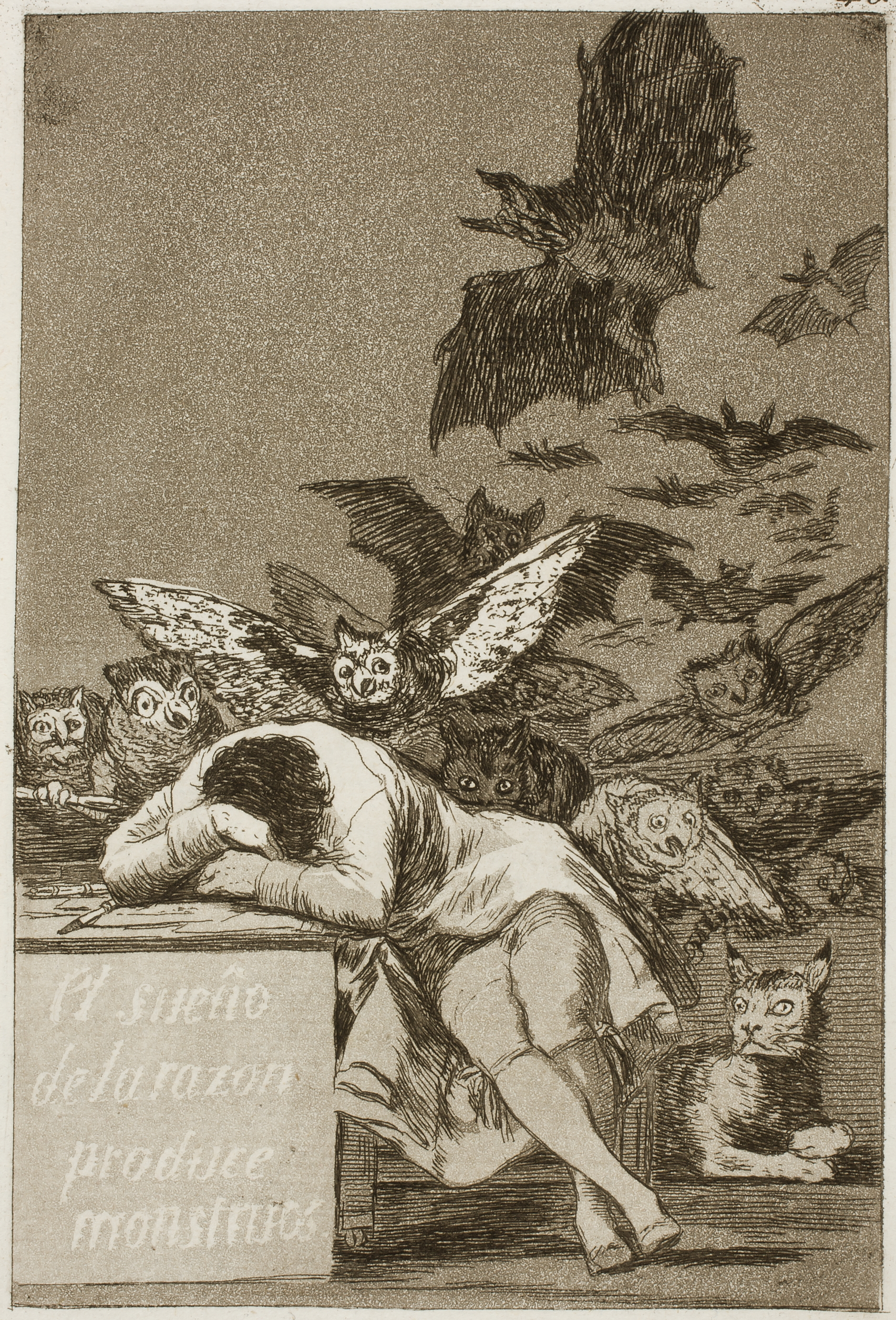 This print is work No. 43 of the "Caprichos" series (1st edition, Madrid, 1799).